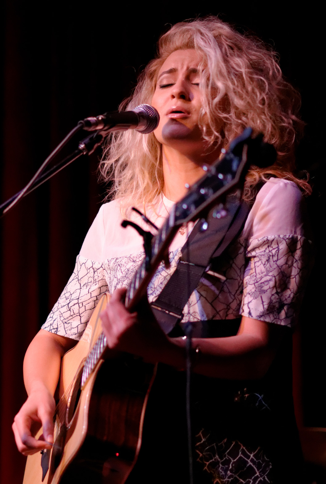 Tori Kelly performing at Hotel Cafe in 2015